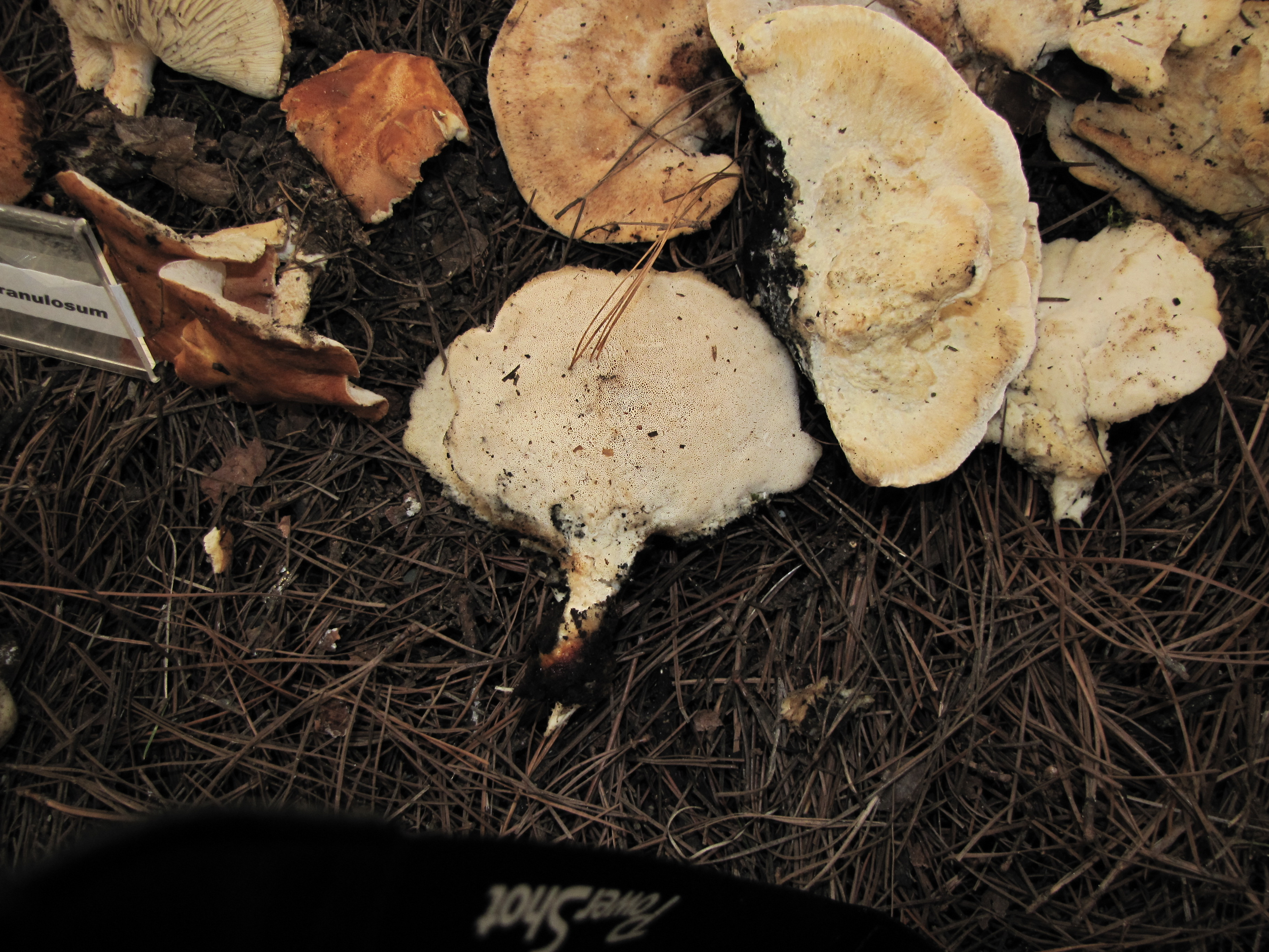 Fungis 'Spongipellis spumeus'